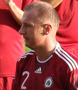 Igors Stepanovs, Latvian football player